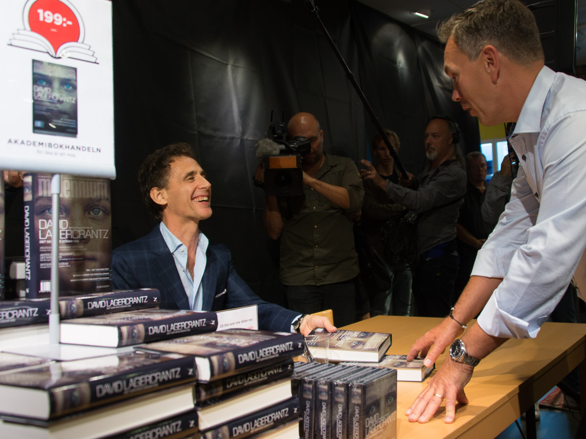 David Lagercrantz, in Stockholm shortly after midnight on Aug. 27, 2015, at the world premiere of his book "The Girl in the Spider's Web".